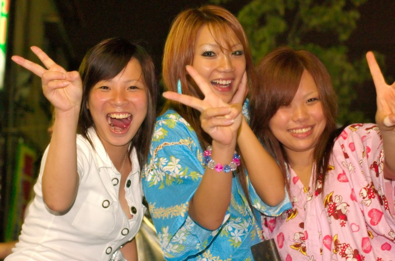 Interesting Yukata that look nearly like pyjamas... I guess it's in keeping with the Yukatta as comfort-wear.